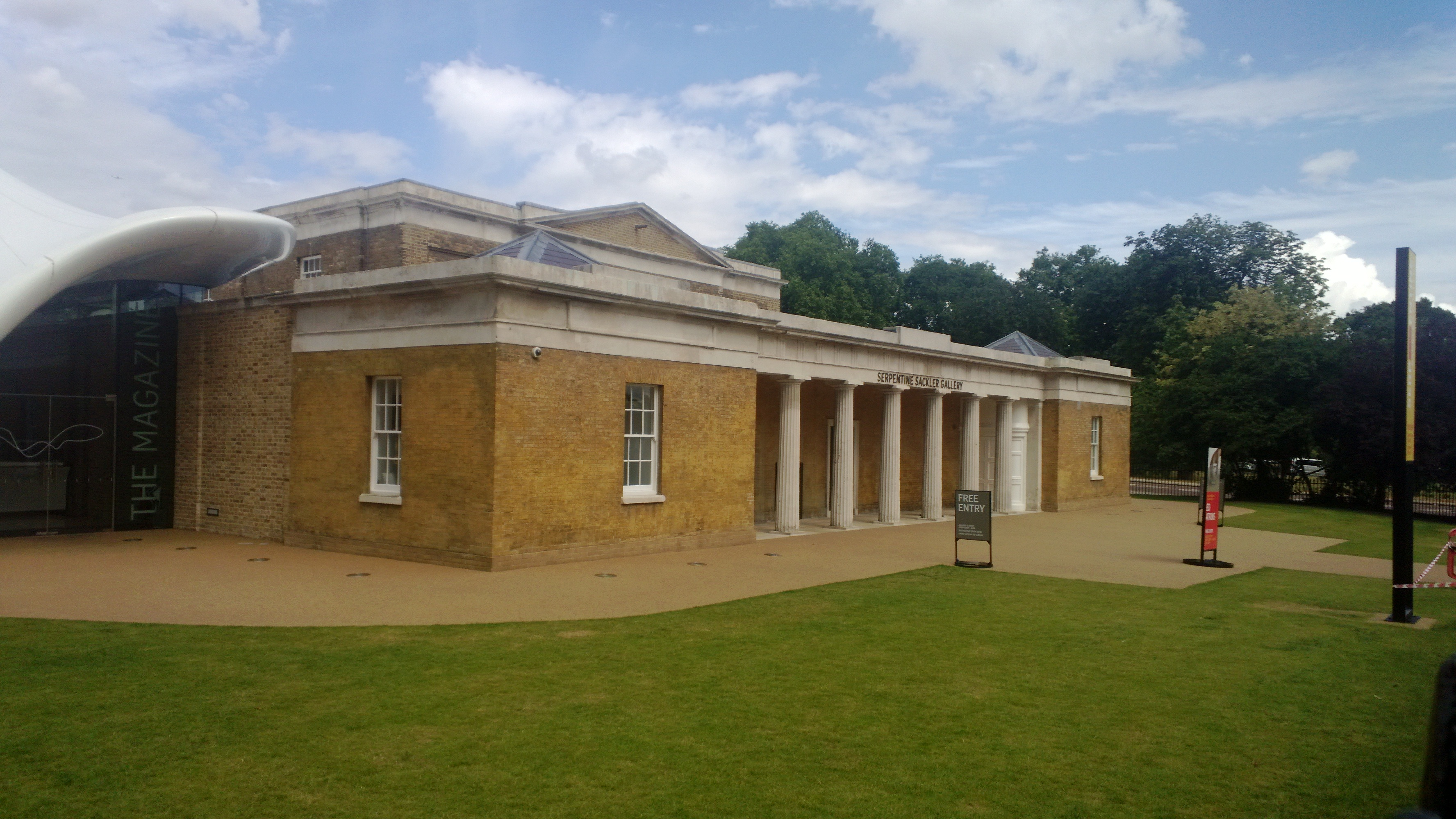 Since 2013 houses the Serpentine Sackler gallery.